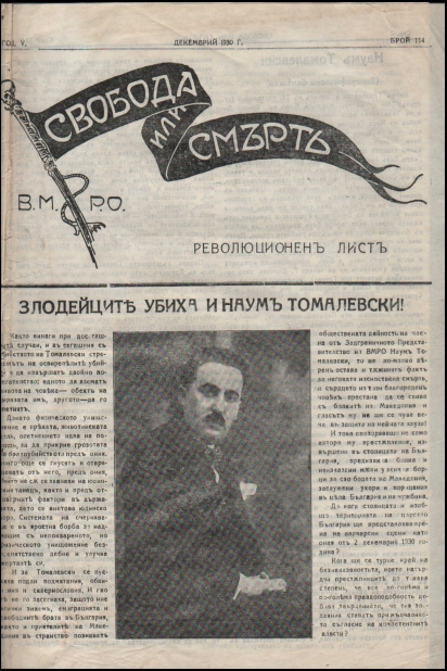 Liberty of Death 1930 December